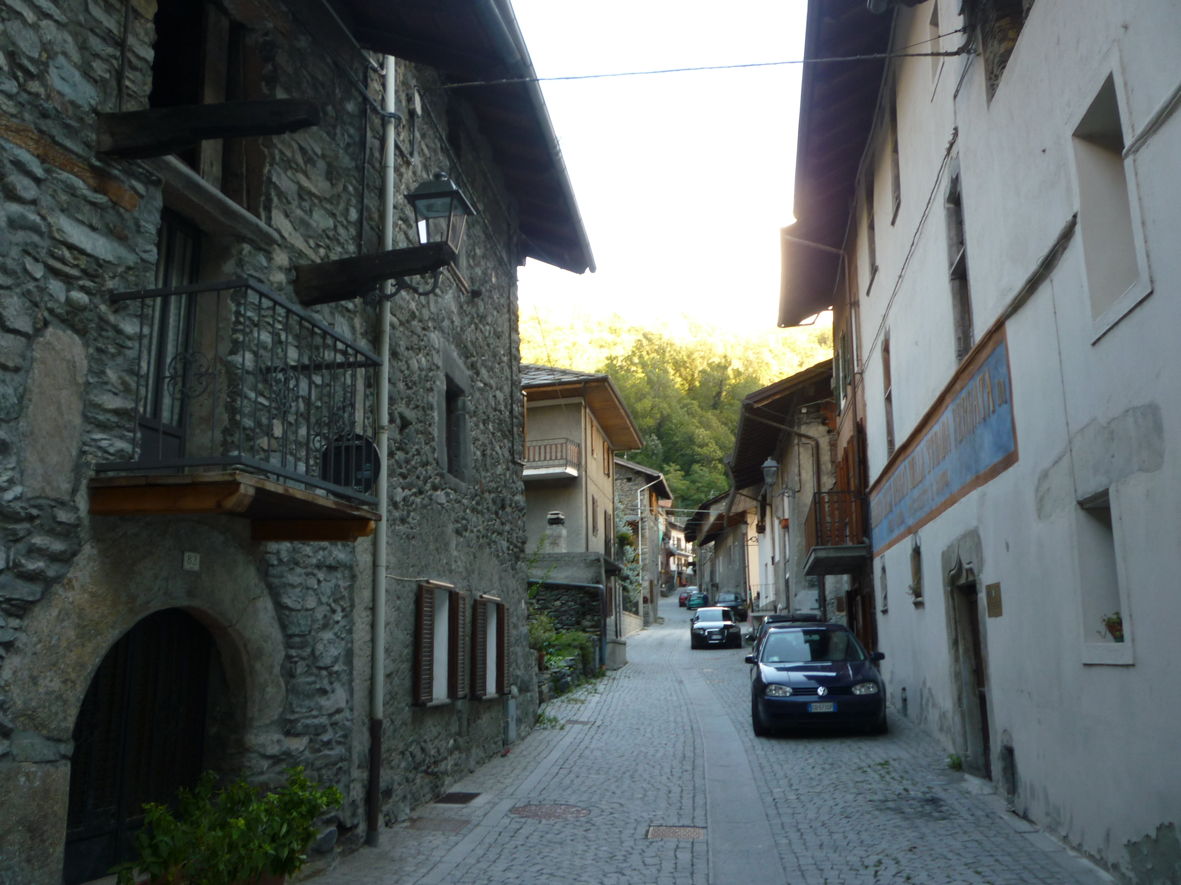 Montjovet (Aosta Valley, Italy)